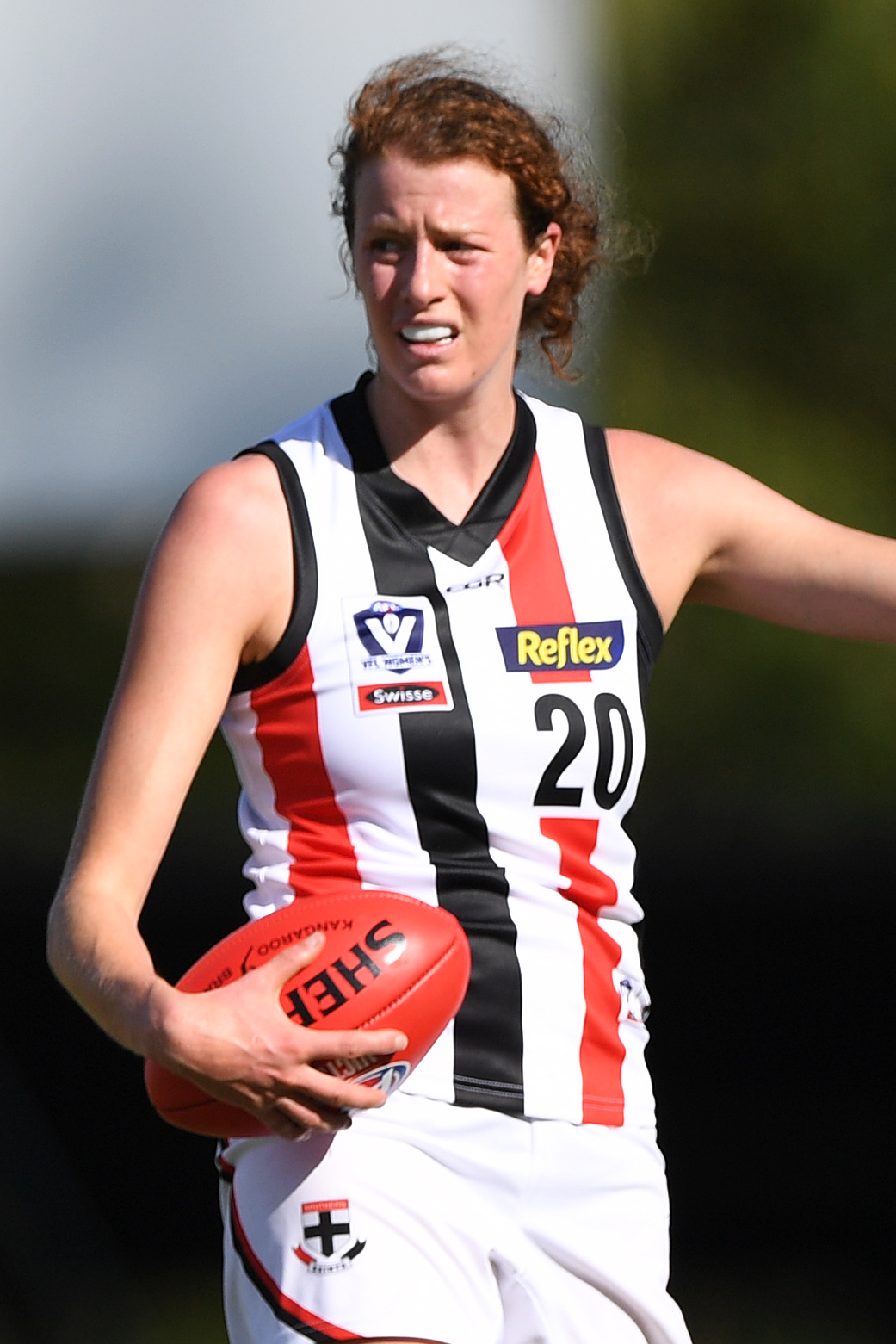 Kelly O'Neill of the Southern Saints during the 2019 VFLW round 2 match between NT Thunder and the Southern Saints at TIO Stadium on Saturday, 18 May 2019 in Darwin, Northern Territory.